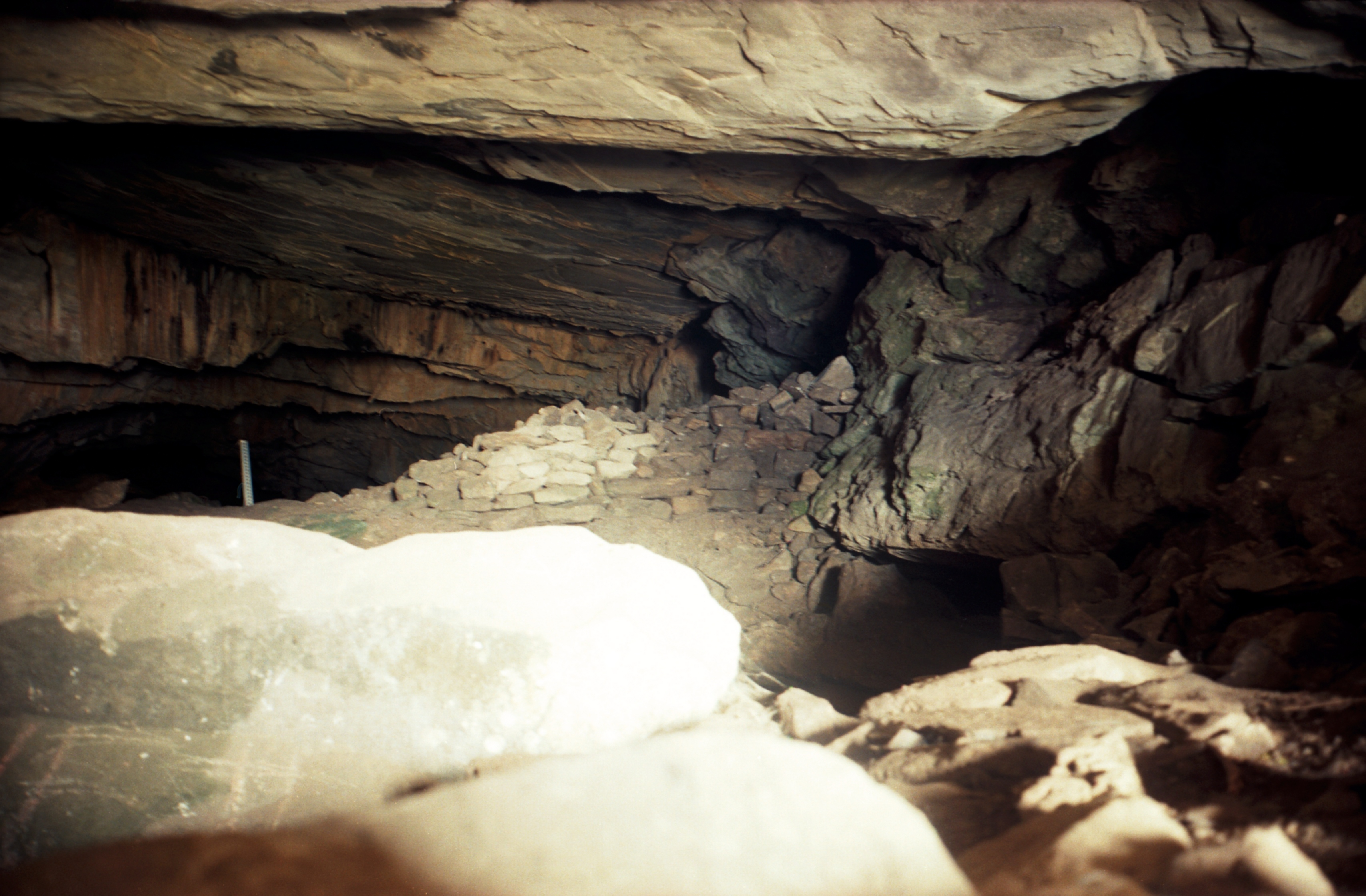 Cave of Zas on Naxos. Around the entrance.